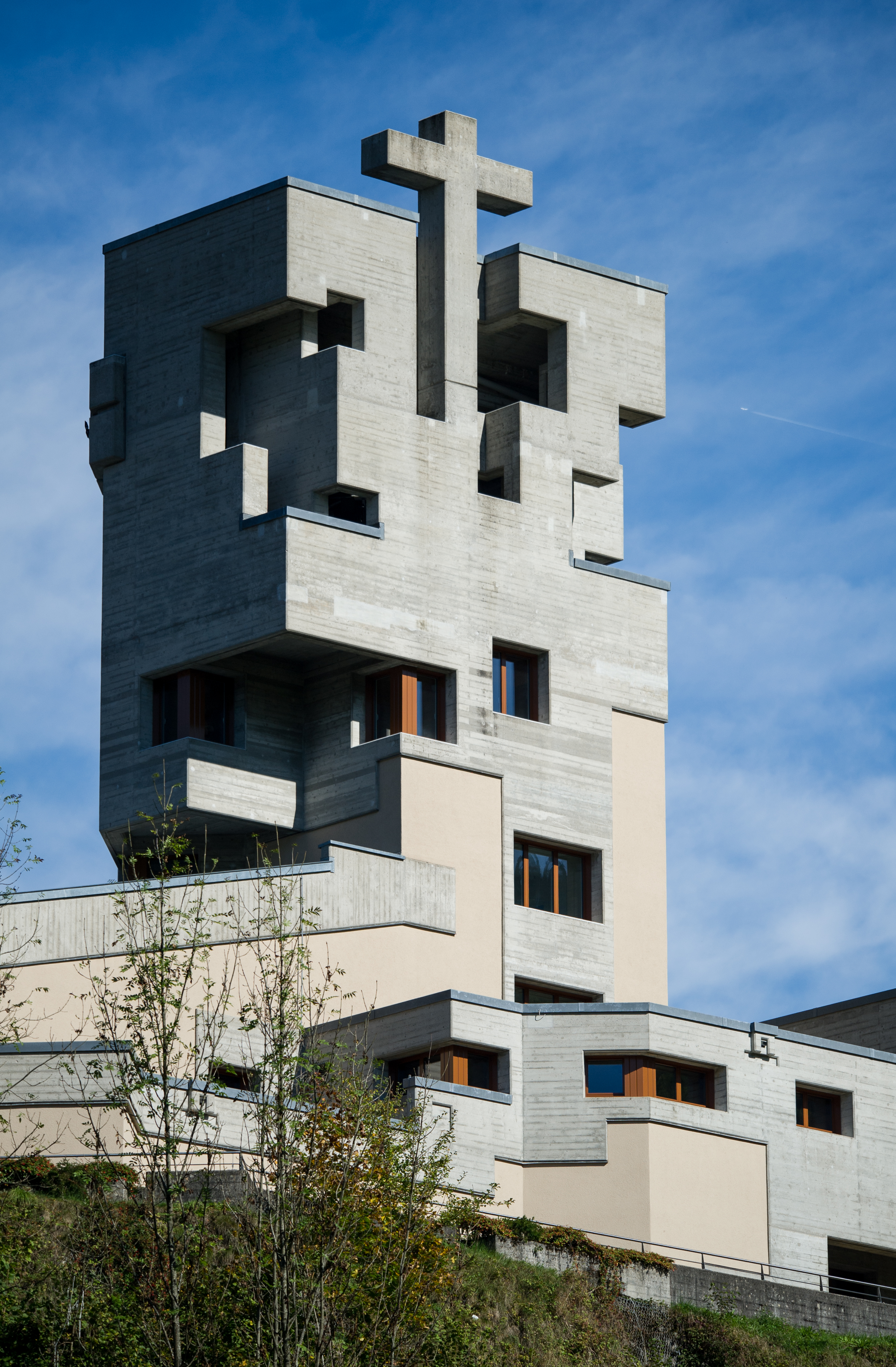 Katholische Kirche St. Gallus